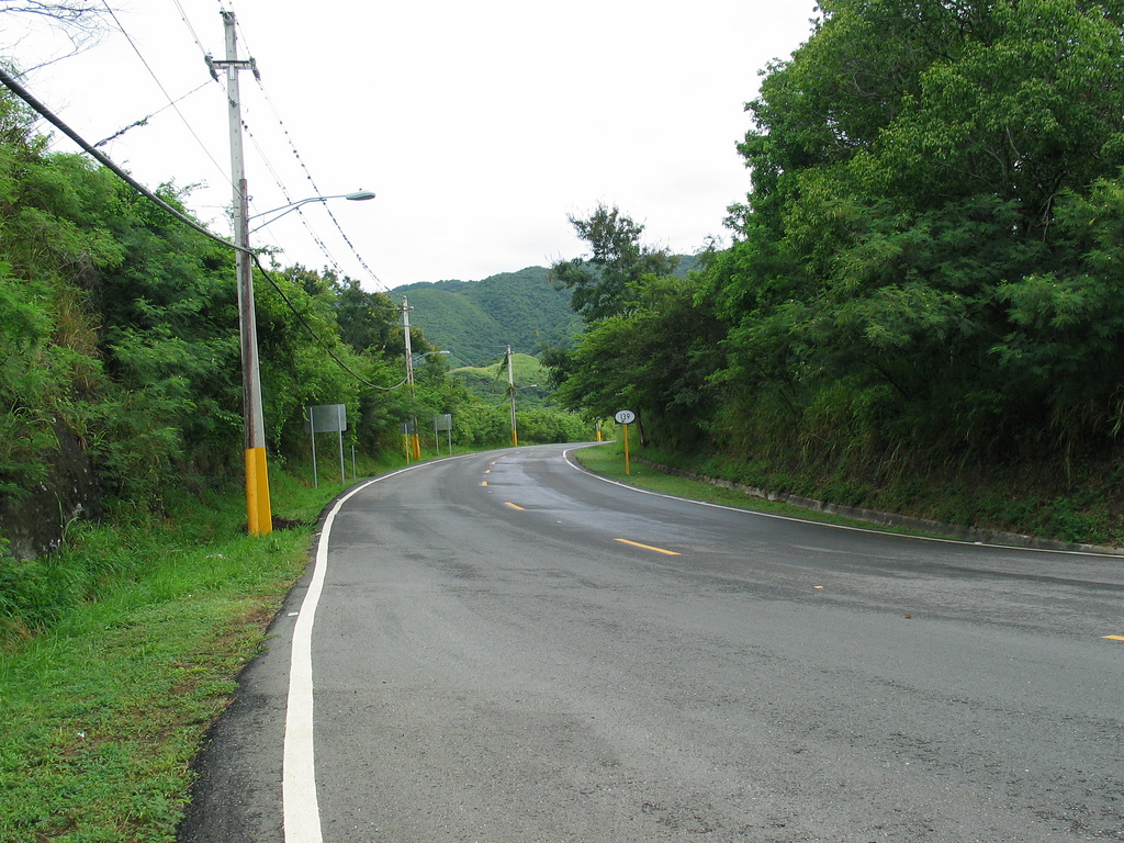 Puerto Rico Highway 139 (PR-139) in Barrio Cerrillos in Ponce, Puerto Rico, heading Northbound